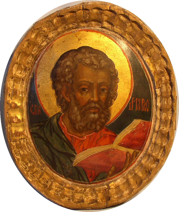 Saint Mark the Evangelist, author of the Gospel of Mark. Russian Orthodox icon. Western Russian empire (perhaps from Ukraine or Belarus, as it says Marko, in Ukrainian on the icon).